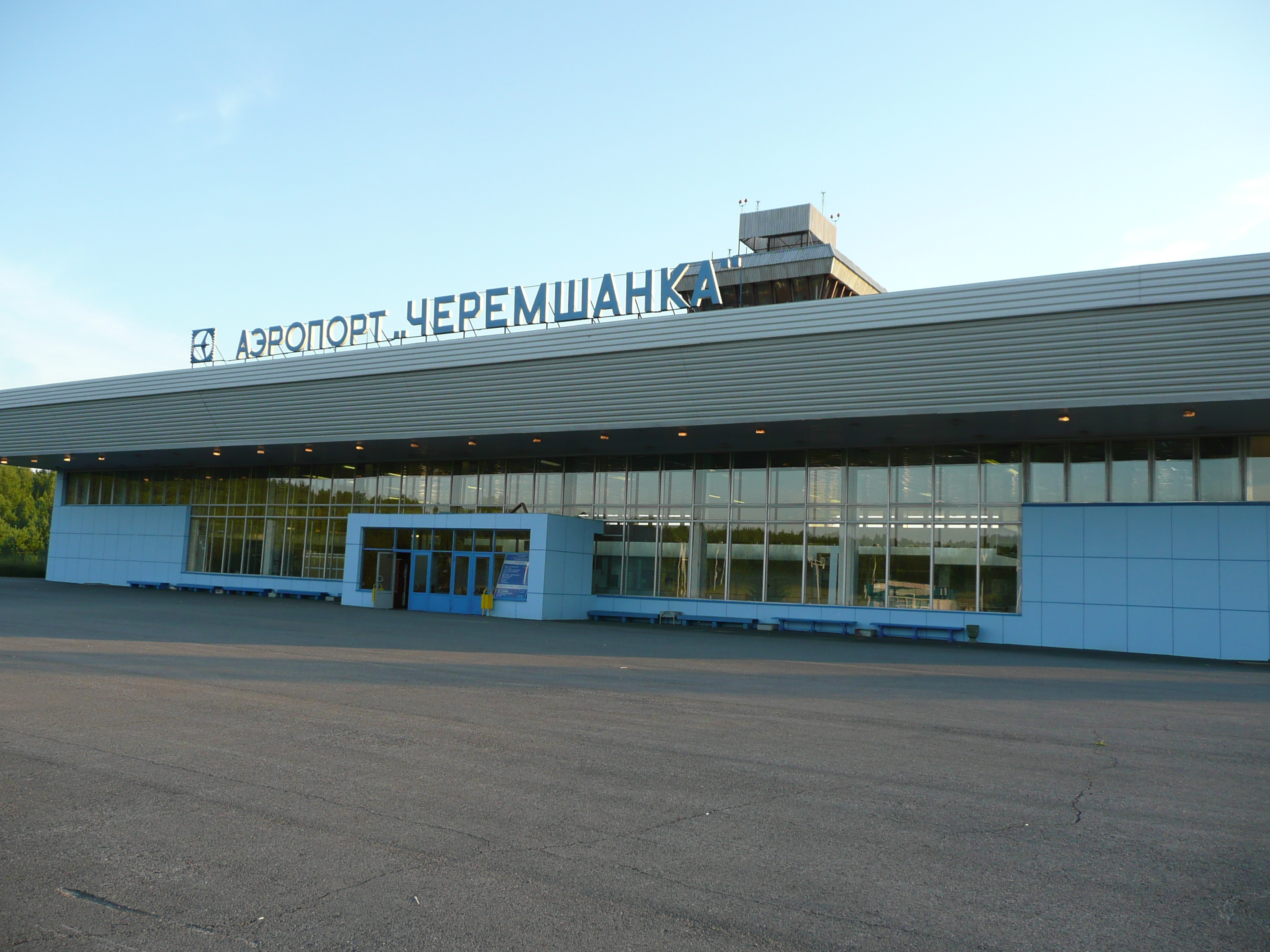 Airport Krasnoyarsk-Cheremshanka in Russia.